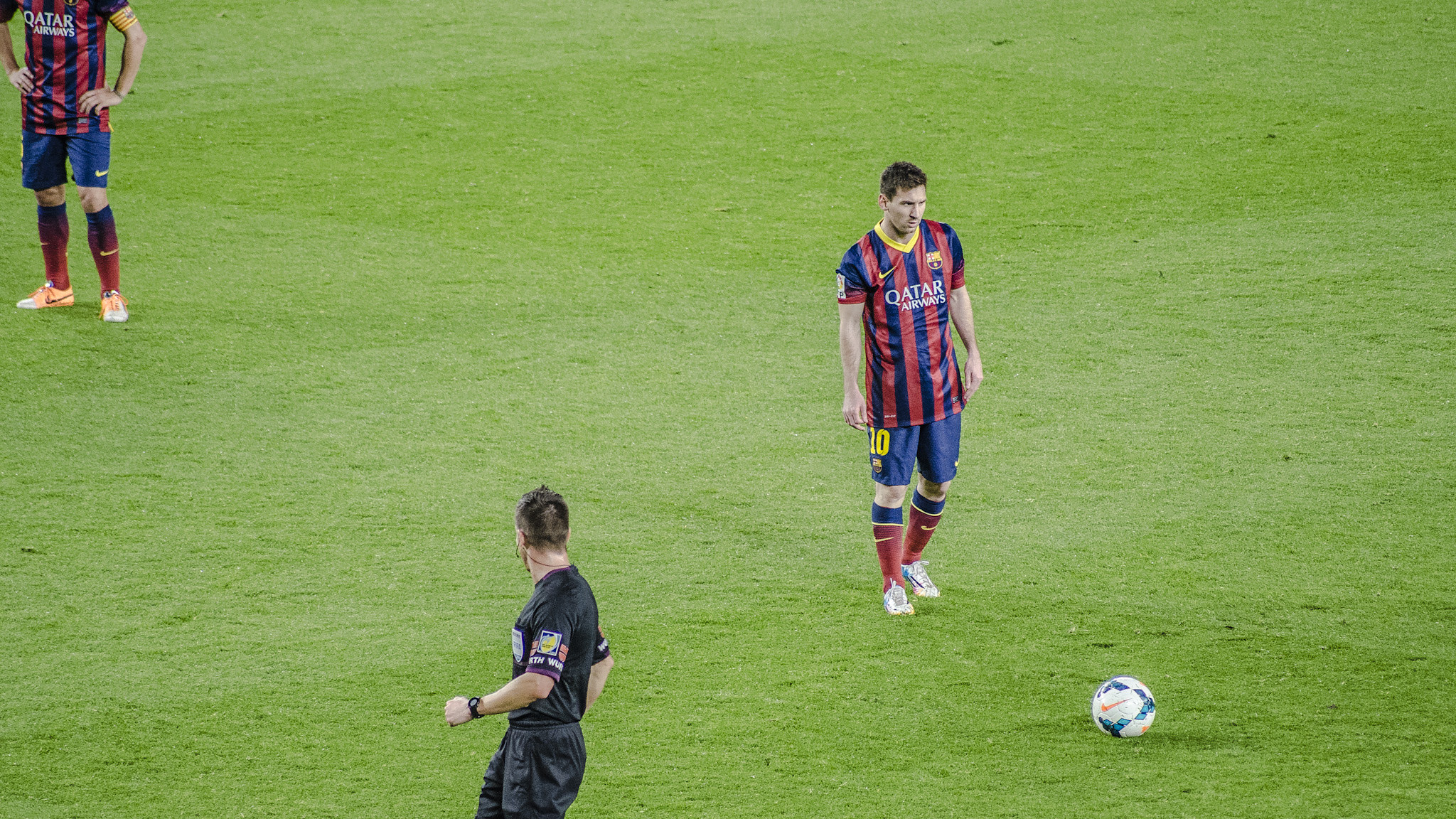 Leo Messi playing for FC Barcelona against Almeria on 2 March 2014